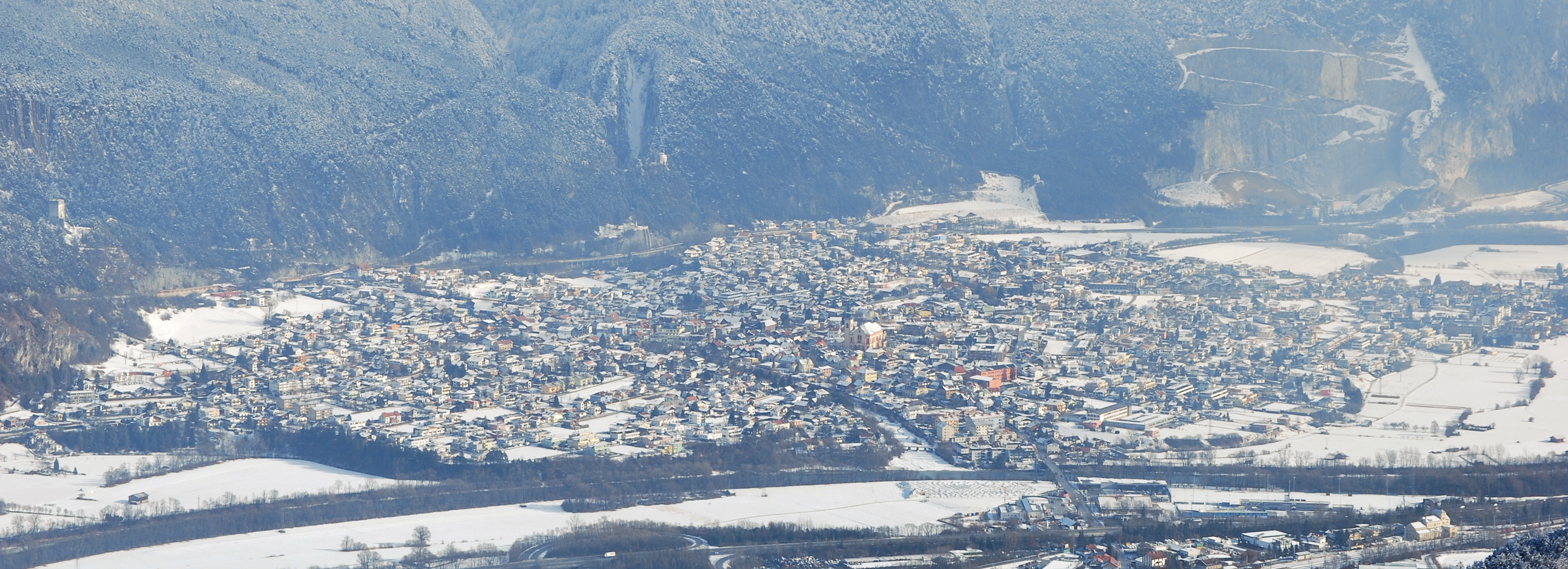 Zirl from Southwest